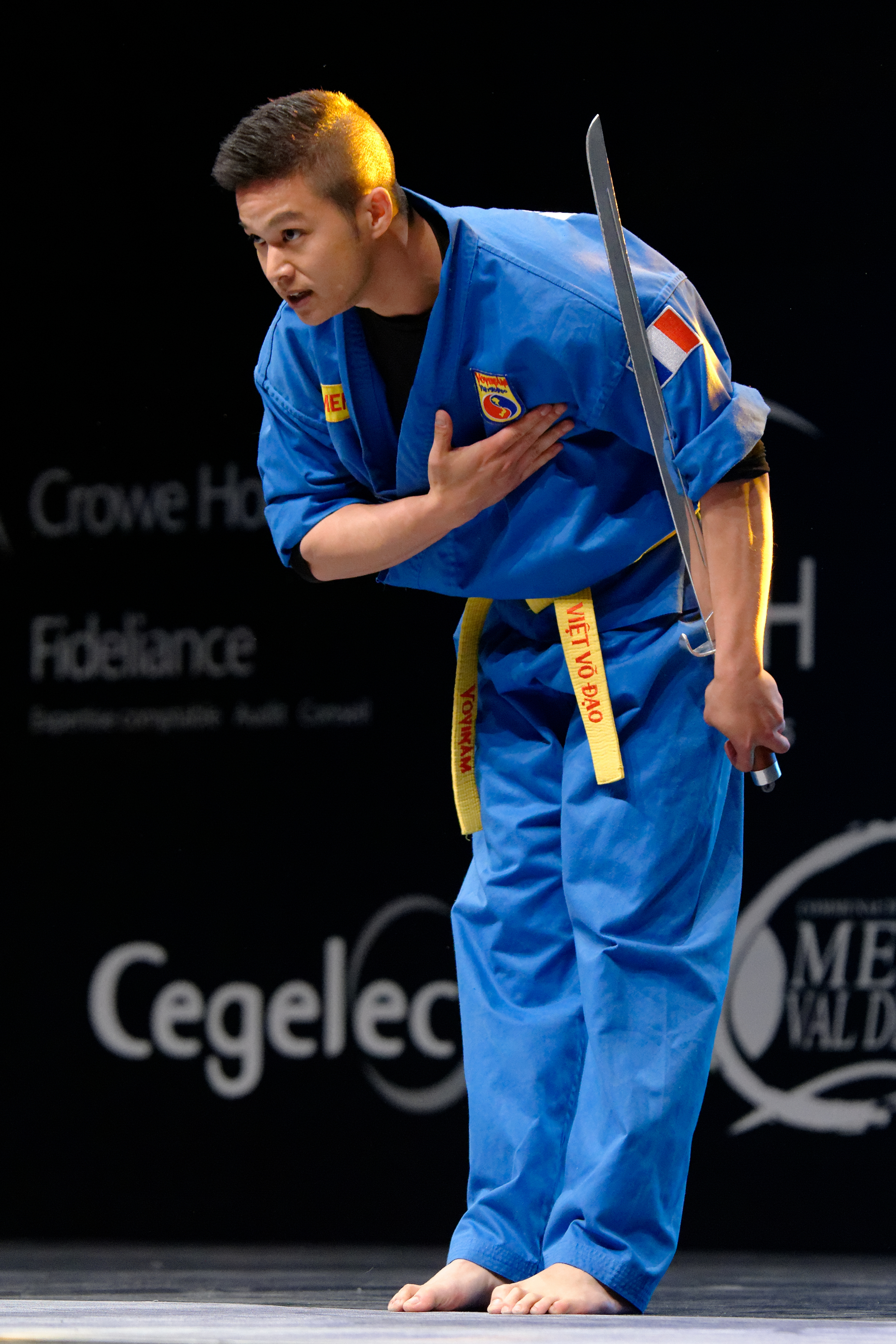 Vovinam demonstration at the 2014 Master de Fleuret Melun Val de Seine.